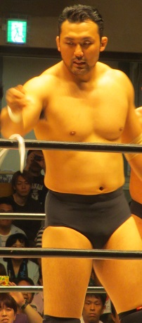 Japanese professional wrestler, Hideki Suzuki. Aug 16 2015, BJW Korakuen Hall.